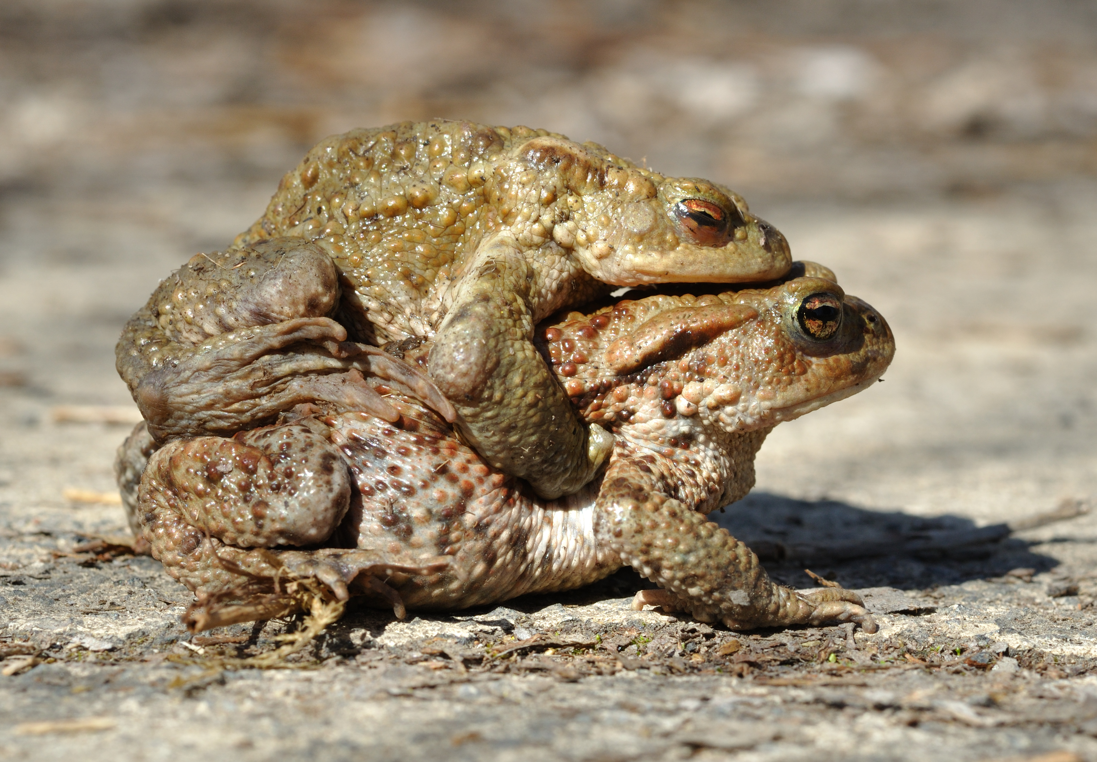 Female and male Common Toad (Bufo bufo) in amplexus mating, Frankfurt, Germany.